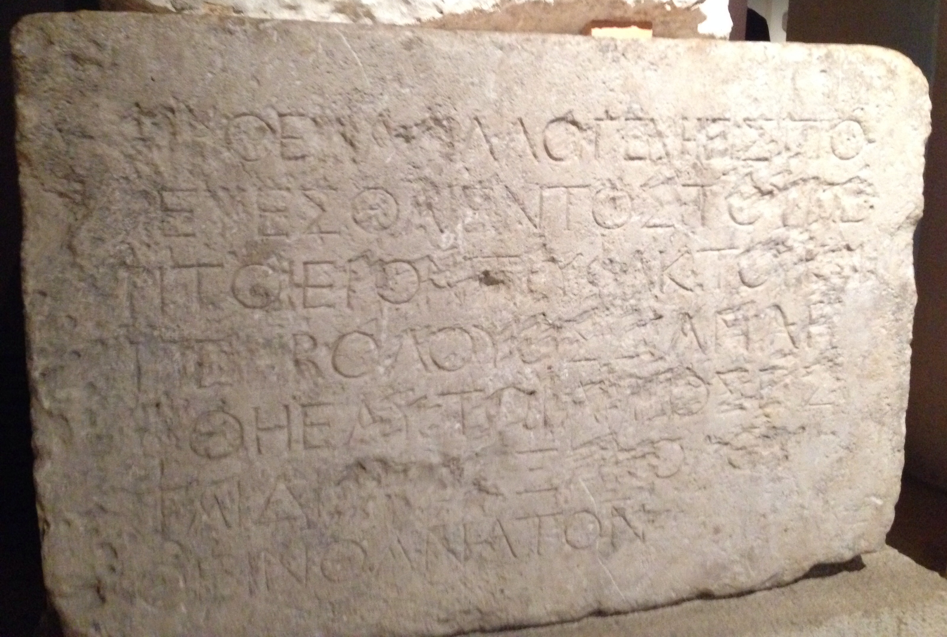 Jerusalem Temple Warning ΜΗΟΕΝΑΑΛΛΟΓΕΝΗΕΙΣΠΟ ΡΕΥΕΣΟΑΙΕΝΤΟΣΤΟΥΠΕ ΡΙΤΟΙΕΡΟΝΤΡΥΦΑΚΤΟΥΚΑΙ ΠΕΡΙΒΟΛΟΥΟΣΔΑΝΛΗ ΦΘΗΕΑΥΤΩΙΑΙΤΙΟΣΕΣ ΤΑΙΔΙΑΤΟΕΞΑΚΟΛΟΥ ΘΕΙΝΘΑΝΑΤΟΝ Translation: "Let no foreigner enter within the parapet and the partition which surrounds the Temple precincts. Anyone caught [violating] will be held accountable for his ensuing death."